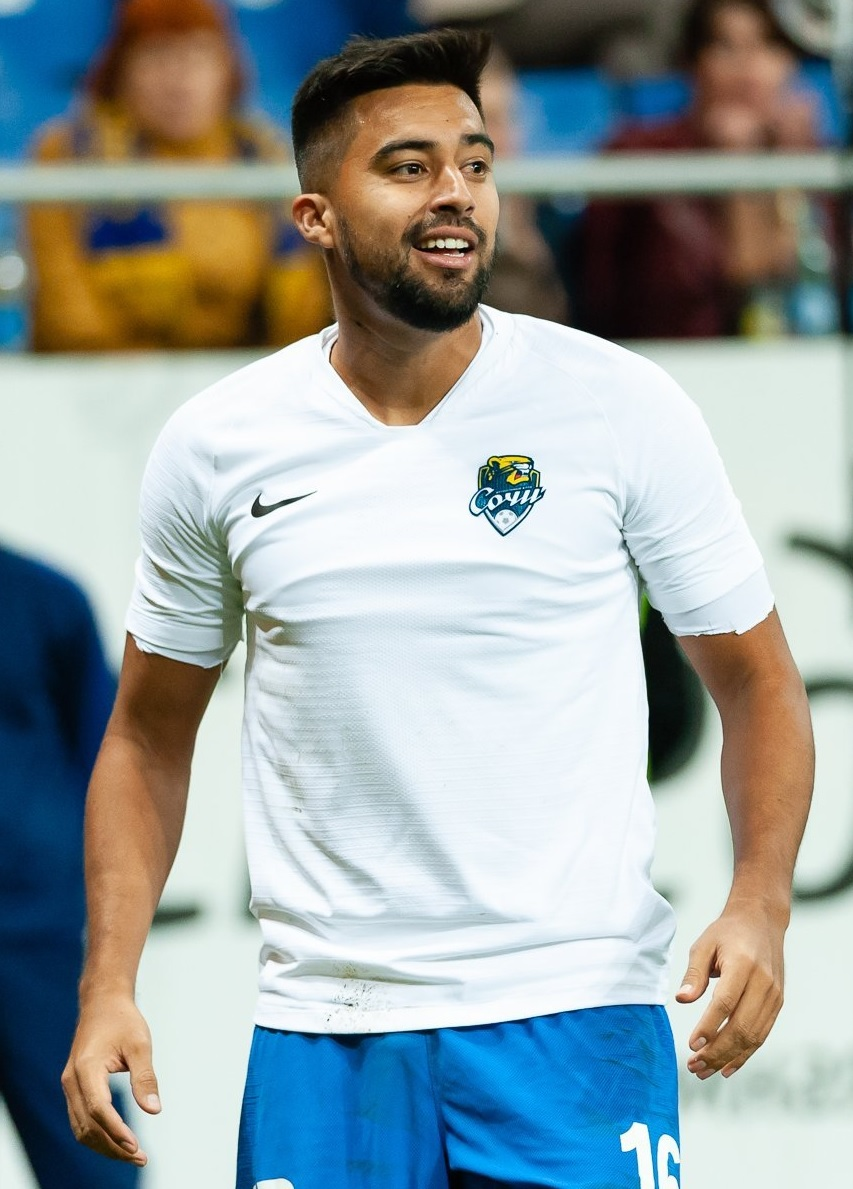 Christian Noboa with PFC Sochi in a game against FC Rostov.